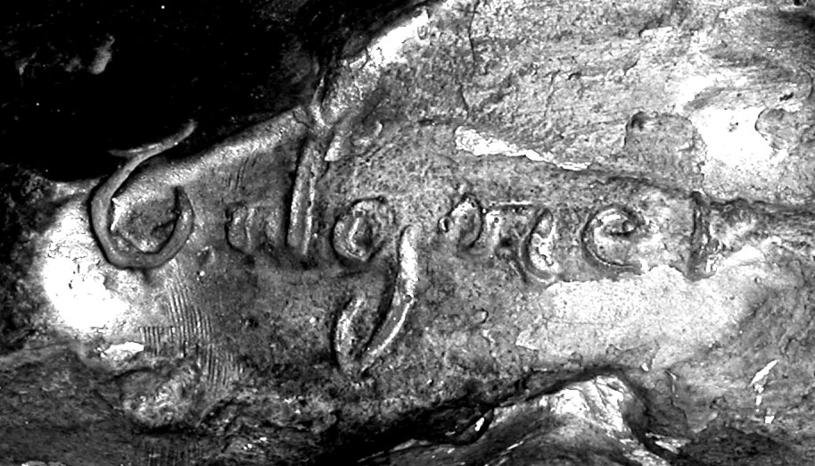 Victor Tilgner, Signatur in Gips